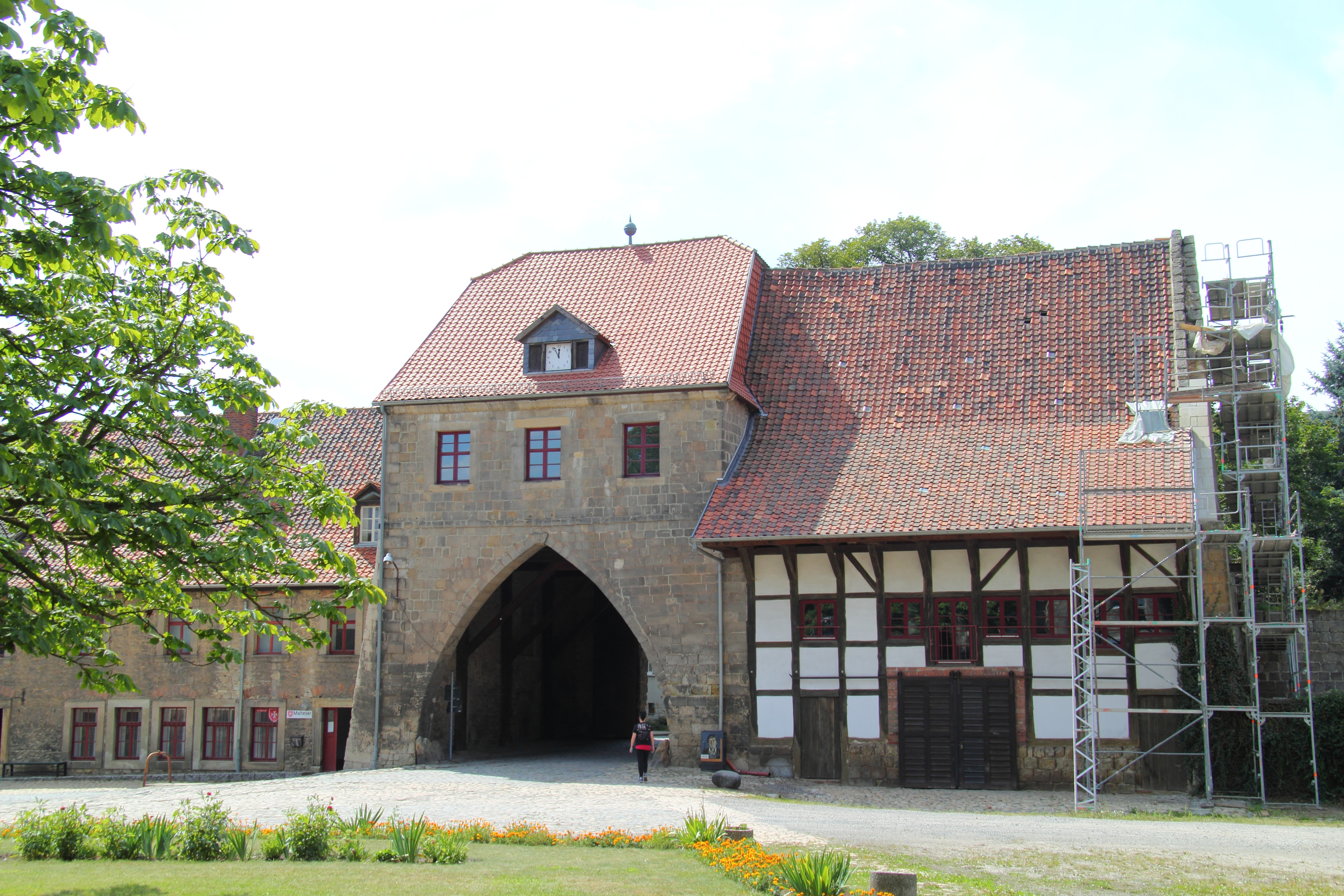 Halberstadt, Germany: St. Burchardi Monastery